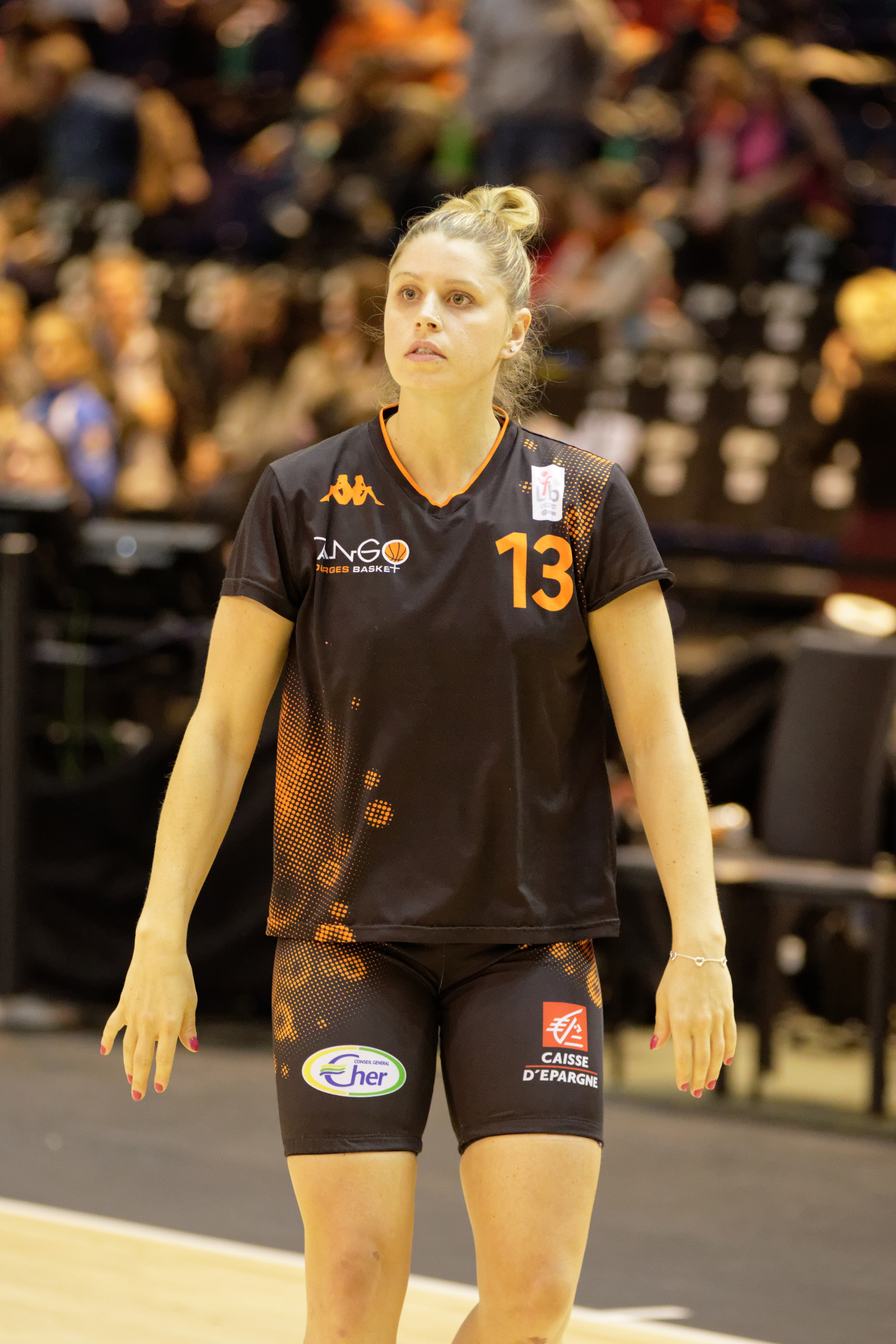 Final of the French Basketball Cup, Lattes-Montpellier vs Bourges, 2nd May 2015.